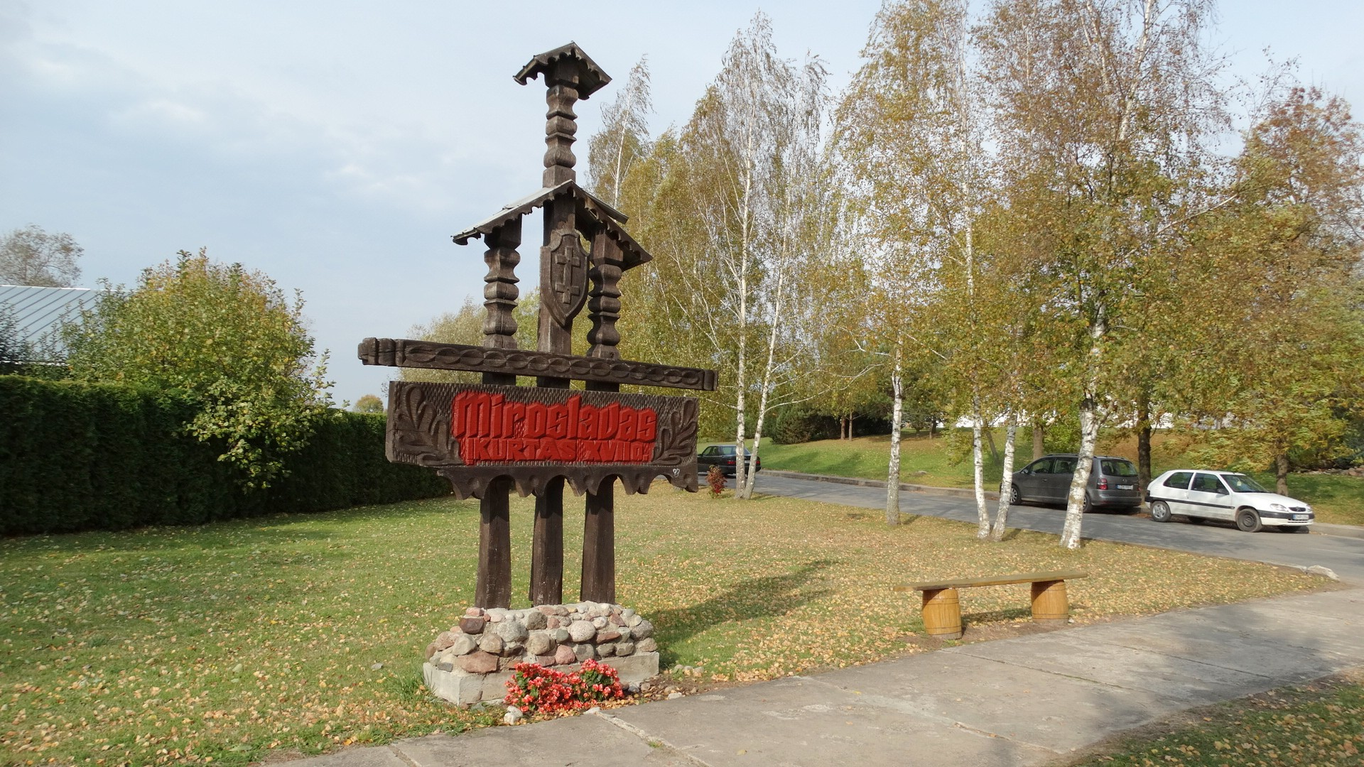 Miroslavas, Alytus district, Lithuania